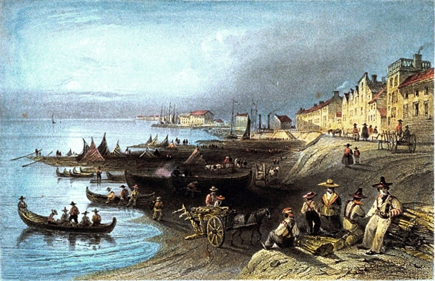 Print, The St. Lawrence, at Montreal, William Henry Bartlett (1809-1854), 1841, Ink and watercolour on paper - Etching - 21.5 x 27.5 cm